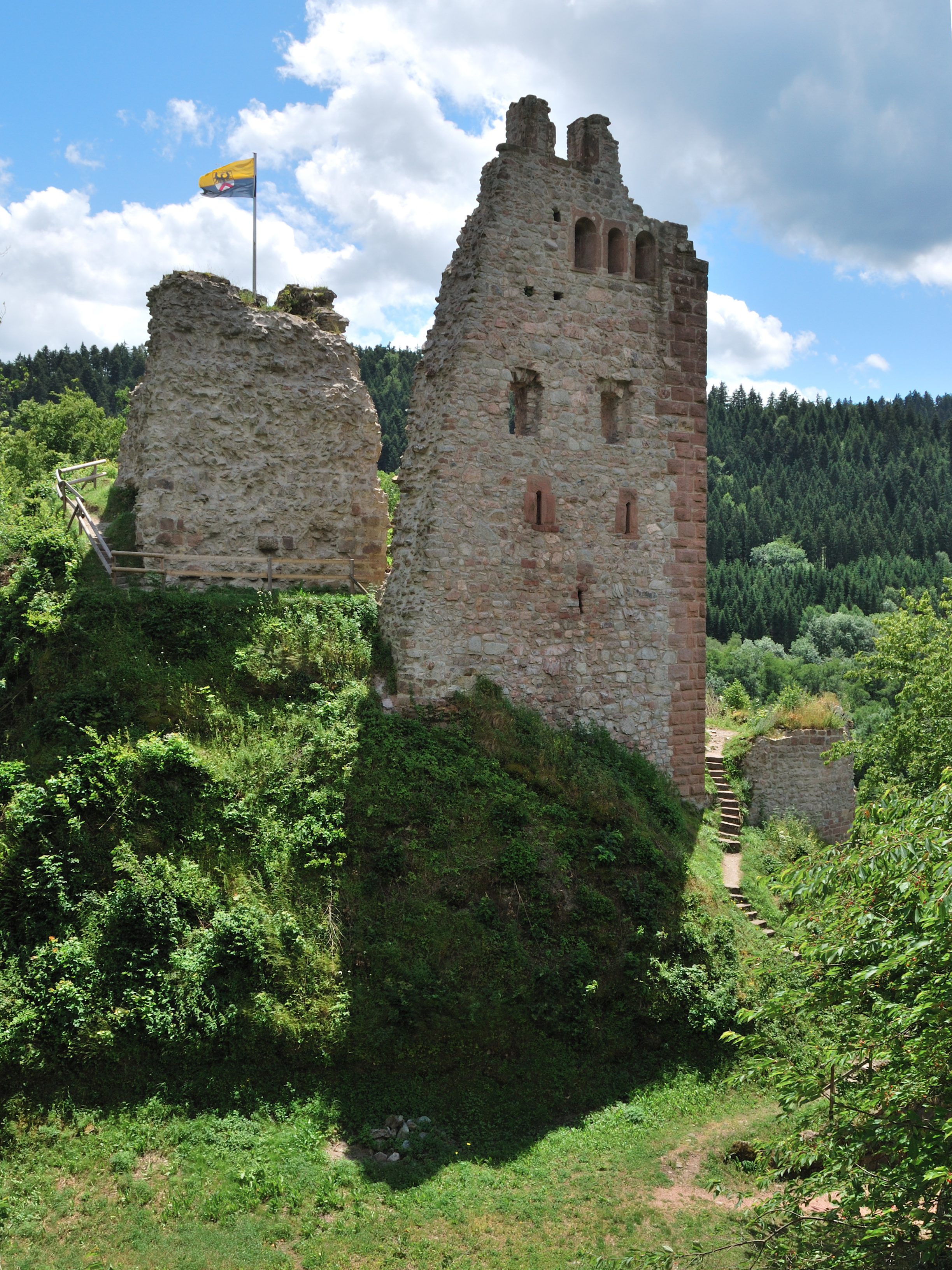 Castle ruine Schenkenburg in Schenkenzell in the federal state Baden-Württemberg in Southern Germany.